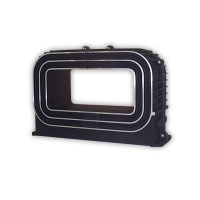 New Wet Horizontal machine for Magnetic Inspection Process